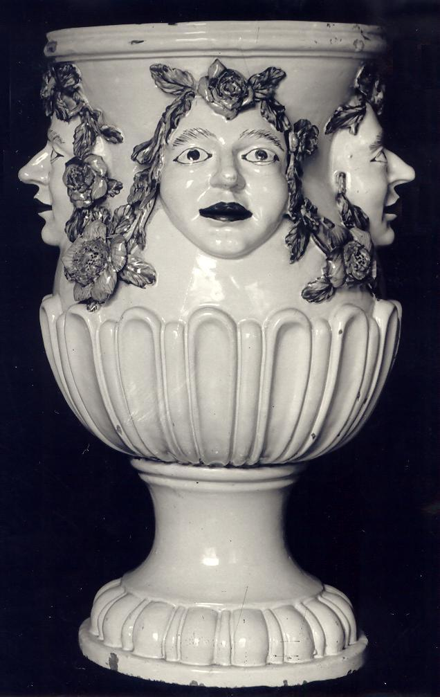 Faience Vases on bases (a pair).